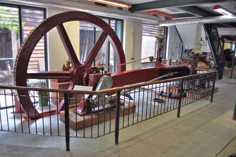 Hick Hargreaves No 303 Steam Engine, near to Forncett st Mary, Norfolk, Great Britain. This is a 50 horse power Hick Hargreaves No 303, being the oldest engine in the Forncett collection. Constructed at Bolton, Lancashire in 1873. It has a single cylinder of 13 inch bore by 36 inch stroke, its 10 foot diameter flywheel runs at 66 revolutions per minute. This engine originally powered a lace factory in Nottingham but became obsolete in 1940 and fortunately survived until 1980 when it was donated to the museum by Kontac Ltd and Jane D Knitwear . For a view of the engine in its original position see SK5640 : Gamble's Factory, steam engine .